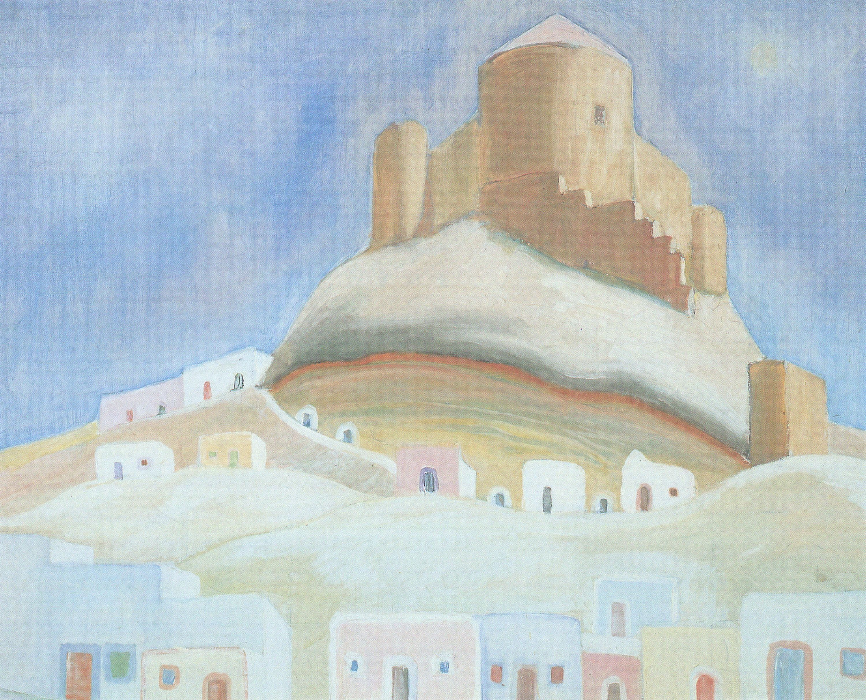 "Almeria [2]". Oil, canvas.